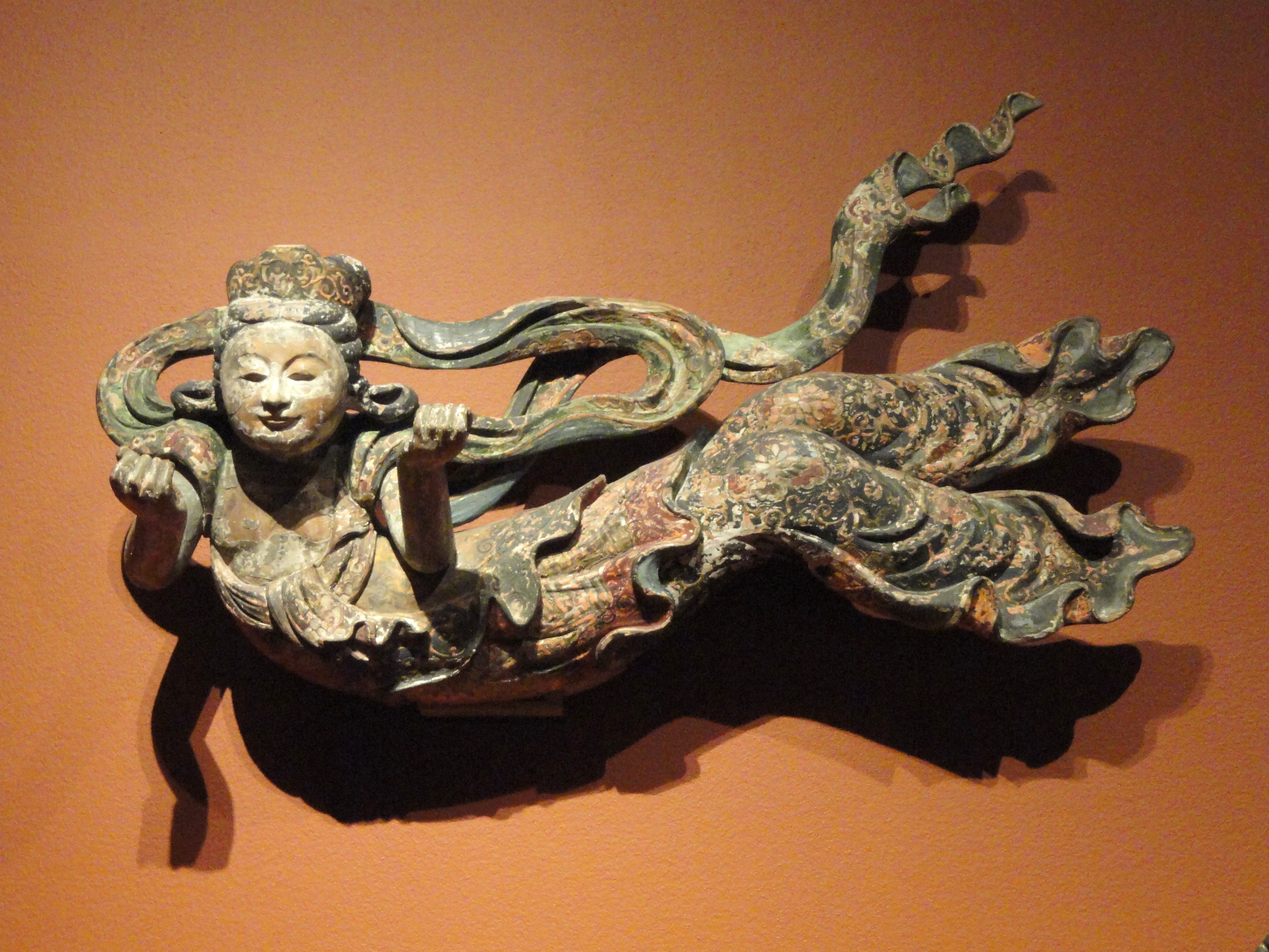 Exhibit in the San Diego Museum of Art, San Diego, California, USA. This artwork is old enough so that it is in the public domain.